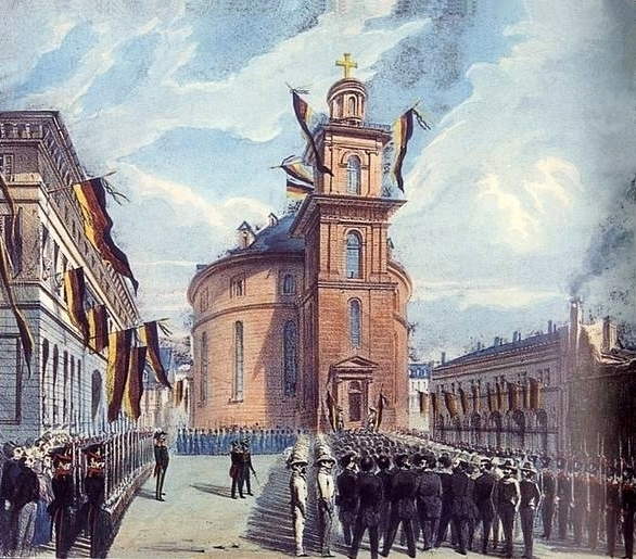 The entrance of the Pre-Parliament in St. Paul's Church on 21 March 1848, Frankfurt am Main